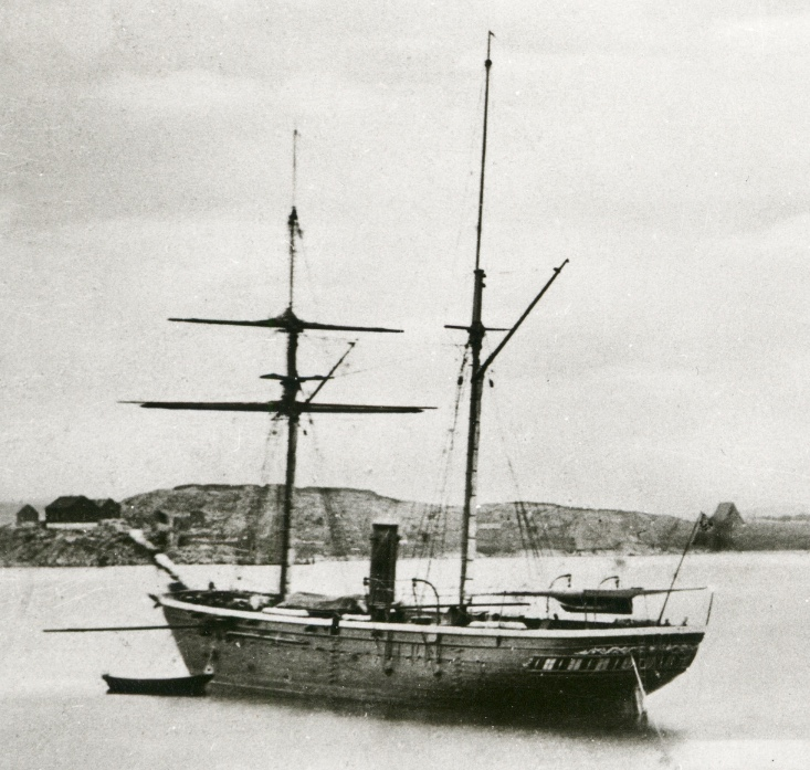 Photograph